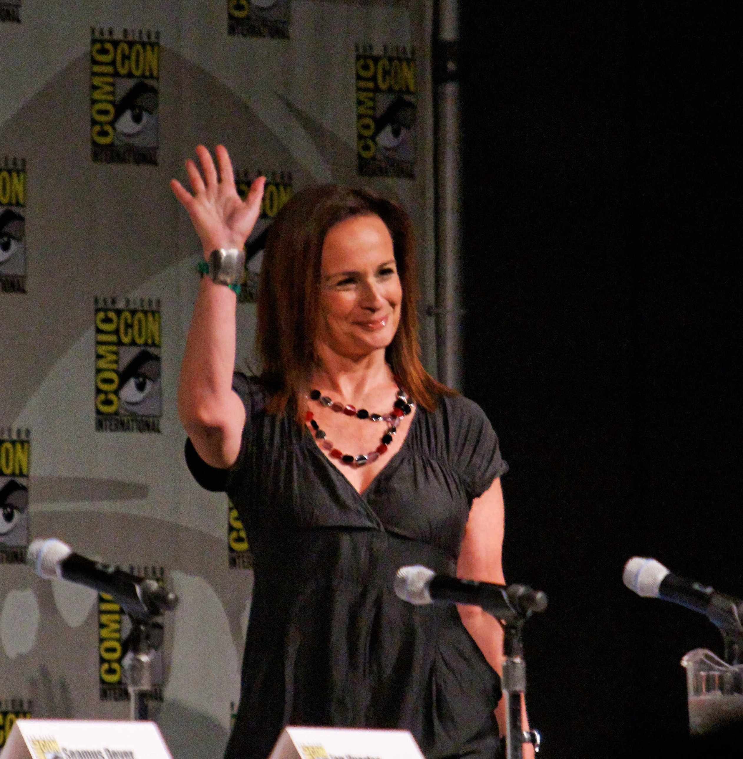 Producer Laurie Zaks at the Castle panel at the 2010 San Diego Comic-Con International